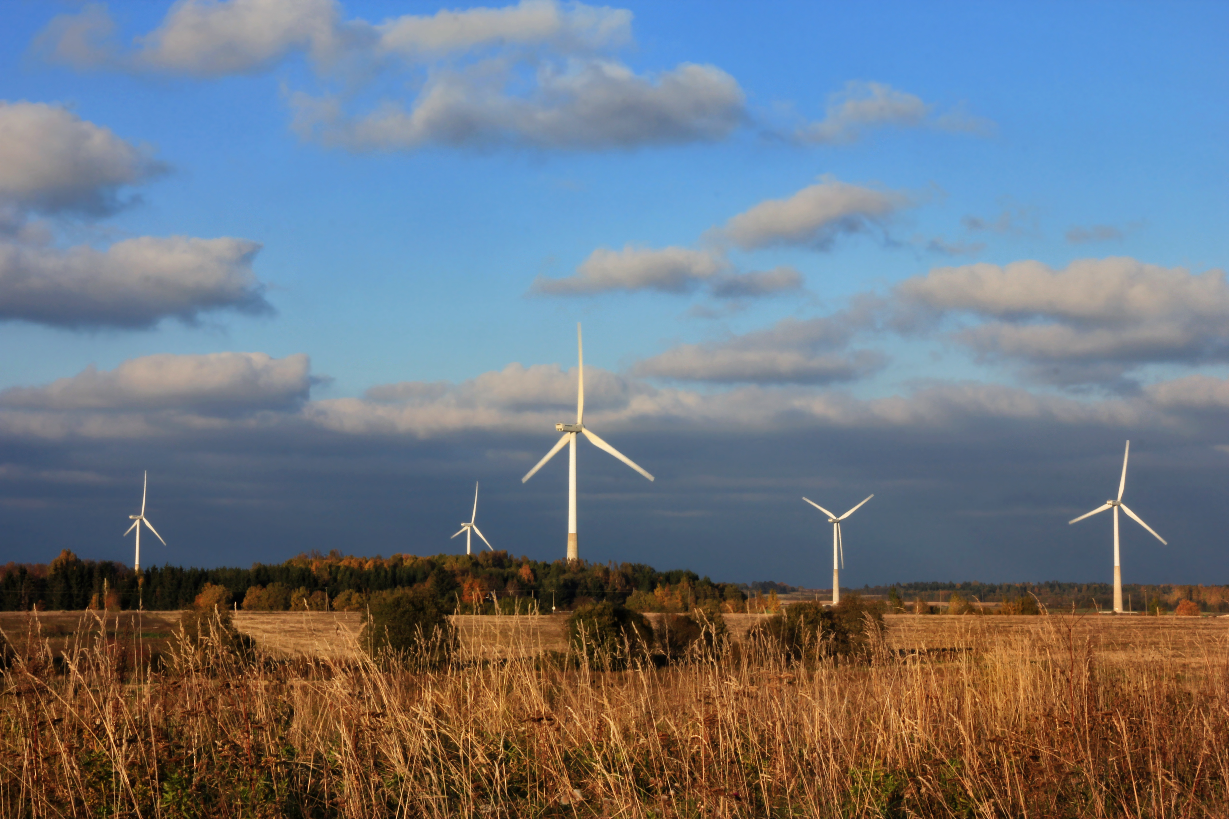 Aseriaru wind farm in Estonia